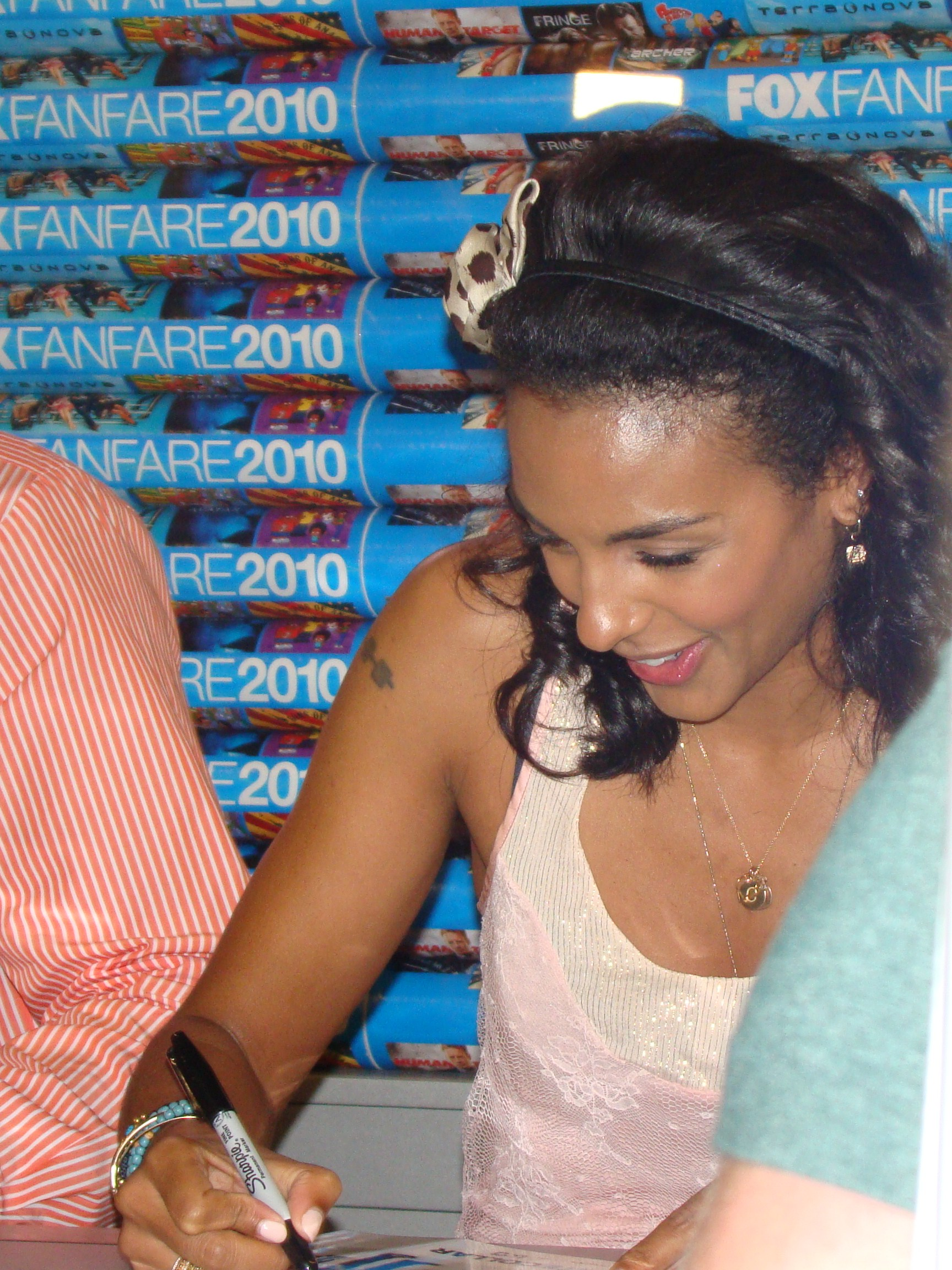 Marsha Thomason